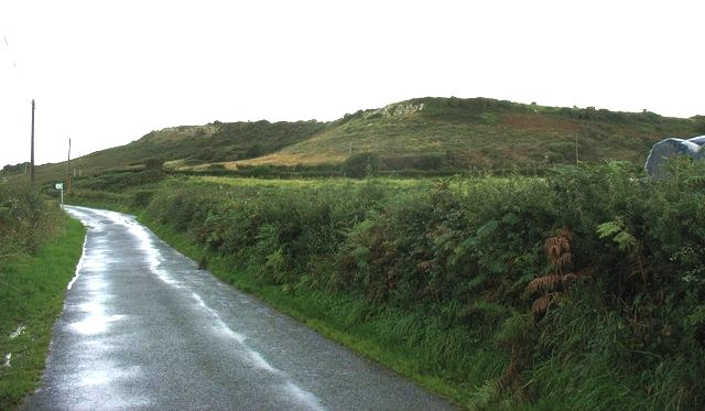 The southern scarp of Bwrdd Arthur Here the carboniferous limestone outcrops to form a scar. The lower slopes are covered in near impenetrable low whins. Bwrdd Arthur has been designated as an SSSI